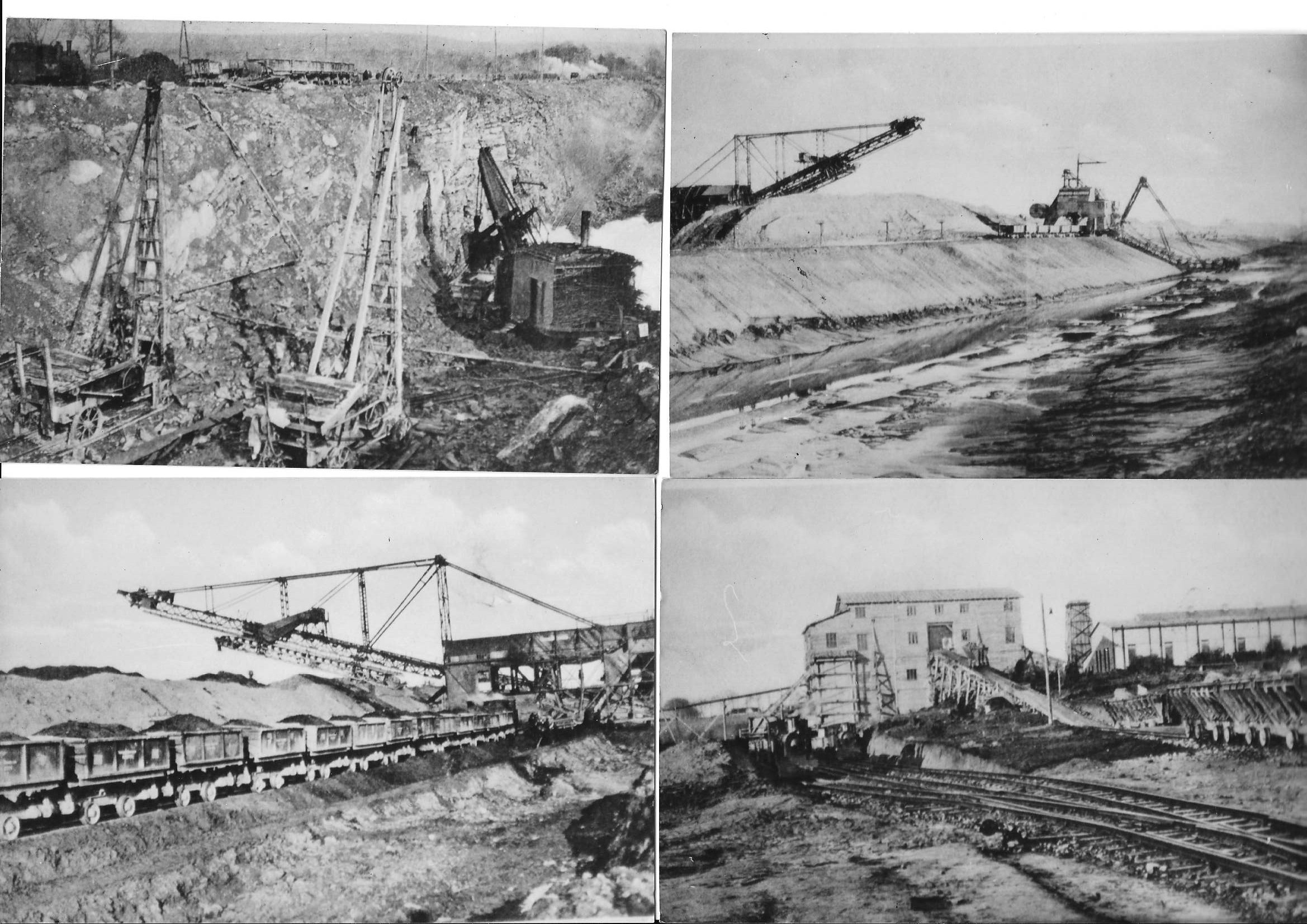 Construction of the main dam and canal